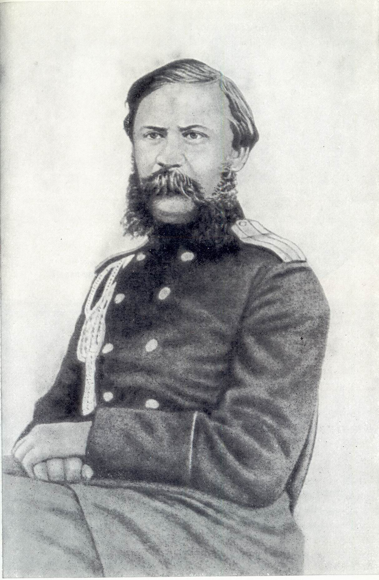 Petr Lavrovitch Lavrov